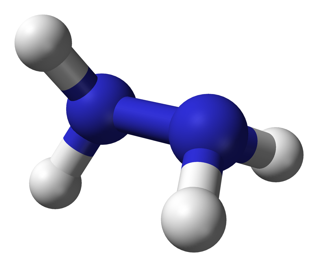 Ball-and-stick model of the hydrazine molecule, N2H4. Gas phase electron diffraction data from Kunio Kohata, Tsutomu Fukuyama, and Kozo Kuchitsu (1983). "Molecular structure of hydrazine as studied by gas electron diffraction". The Journal of Physical Chemistry 86: 602-606.